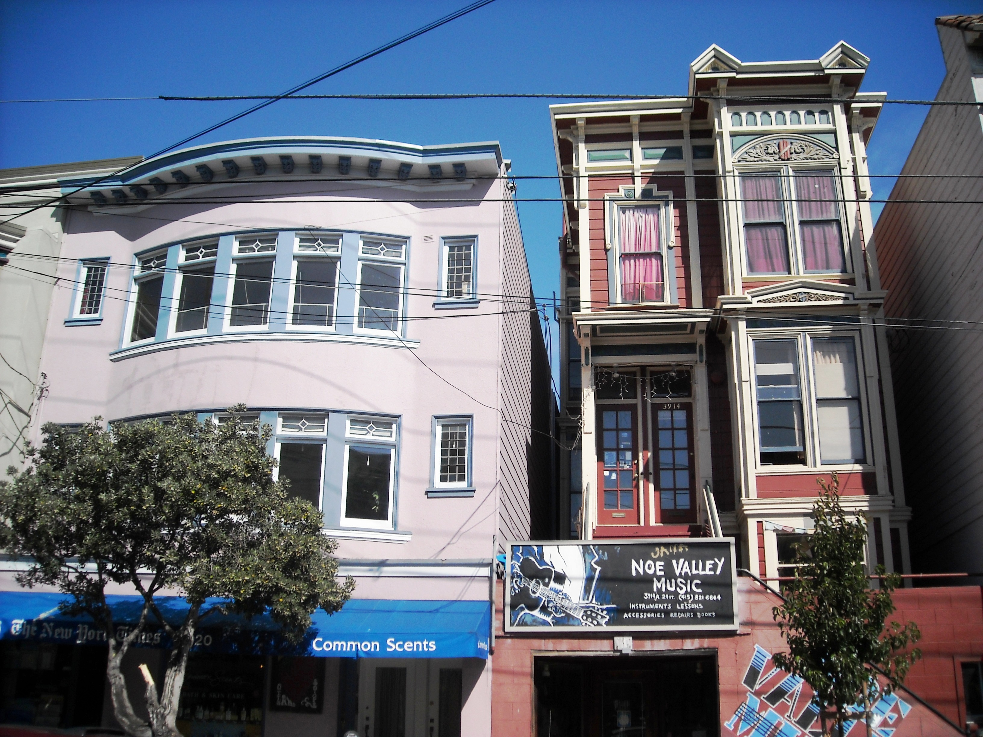 Image originally published in Queer Places: Retracing the Steps of LGBTQ people around the World Authored by Elisa Rolle